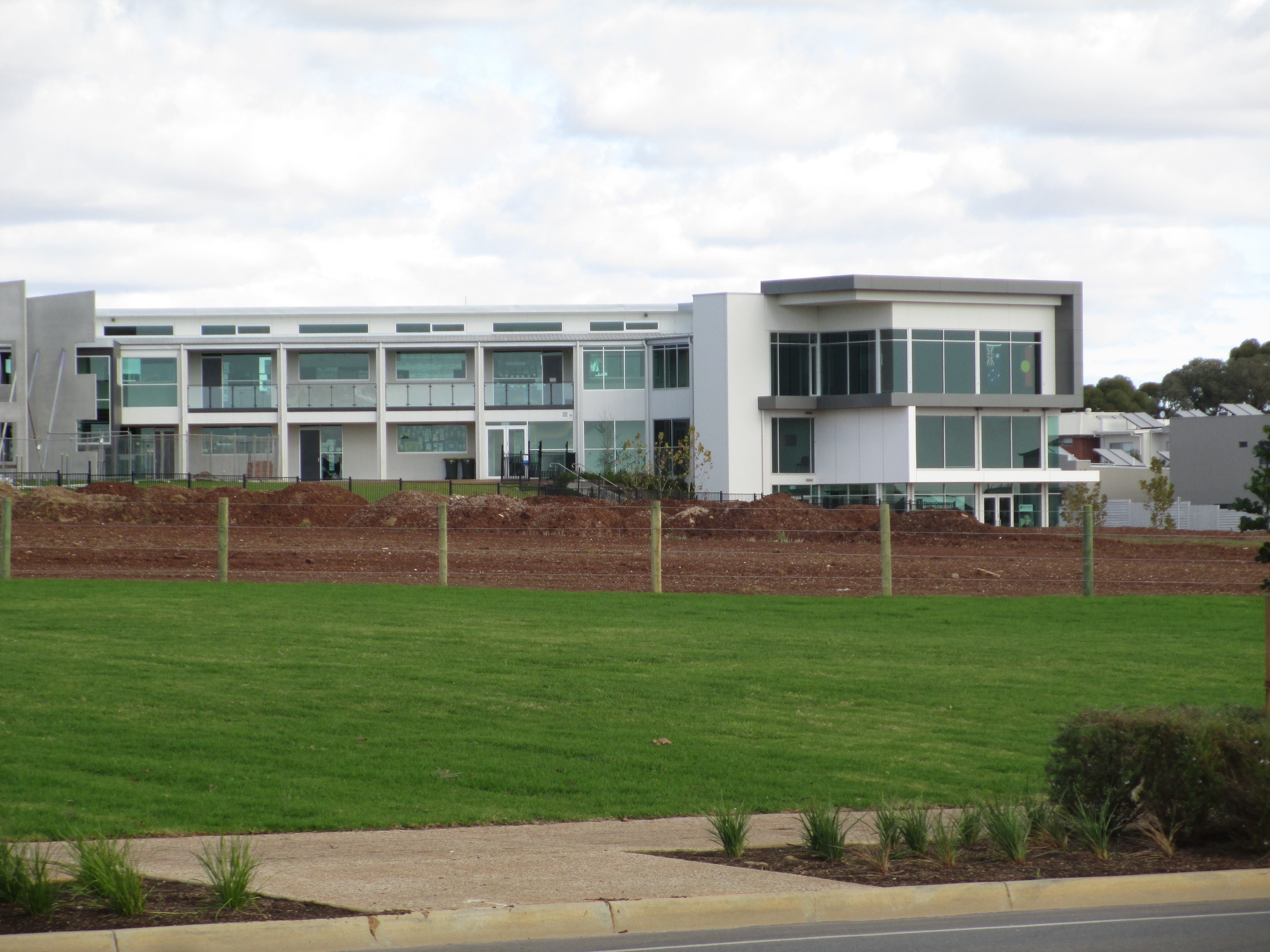 Blakes Crossing Christian College buildings from Main Terrace, Blakeview, South Australia, 2016